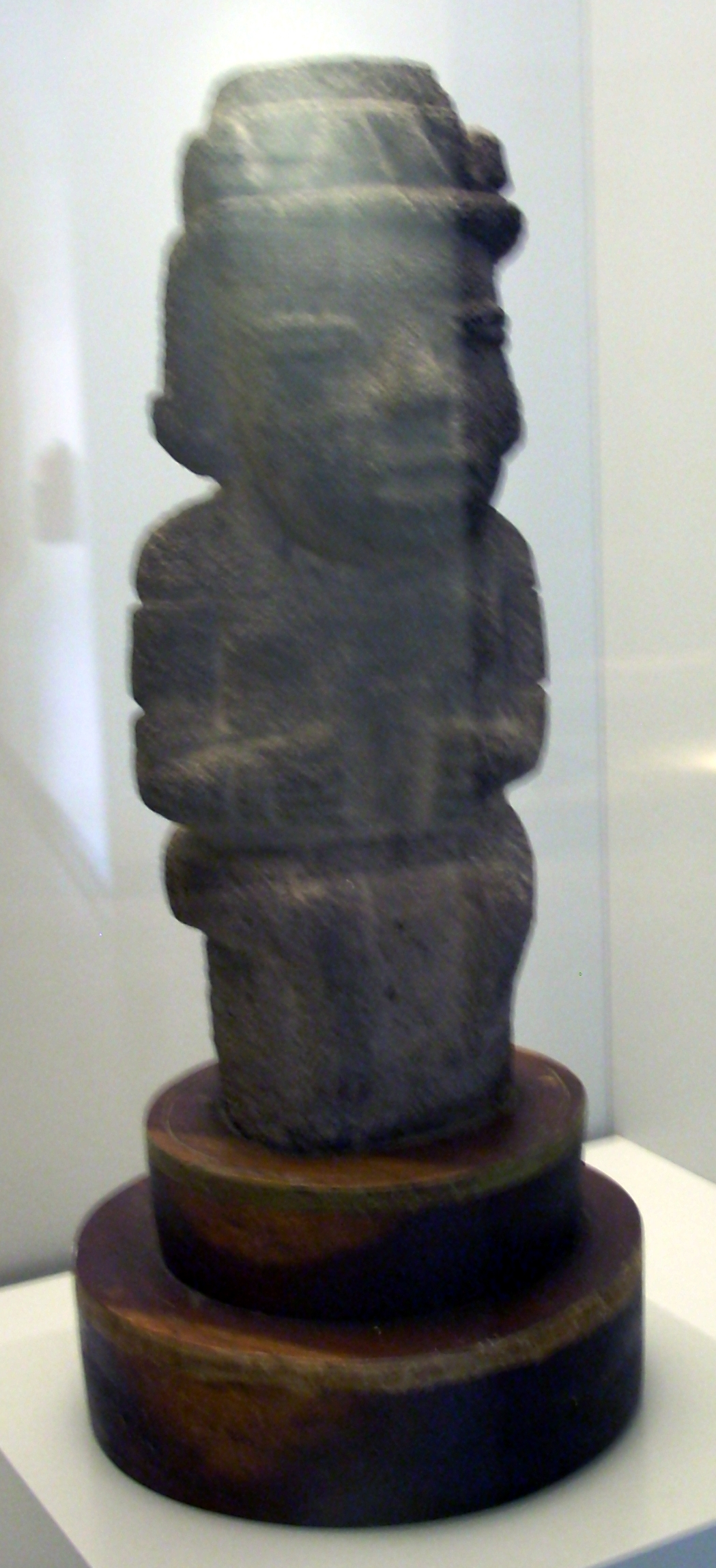 Andesite Nicoya sculpture, 500-1200 AD, Costa Rica. Item 3101 in the Museum of the Americas, Madrid.